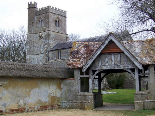 All Saints Church, Enford The oldest surviving portions of the present building are the walls and pillars of the nave, and the remnants of an early church arch. The chancel arch is late Norman, as is the doorway to the south porch. In the 13th century the style of architecture changed rapidly, as the heavy Norman design gave way to lighter, more graceful lines. During the Middle Ages and for some time afterwards the church was almost bare, with the altar table being the only piece of furniture. The floor would have been strewn with rushes, and often scented herbs, which were replaced twice yearly. The church also housed the local school from as early as 1552 to the late 19th century, latterly in the north aisle.